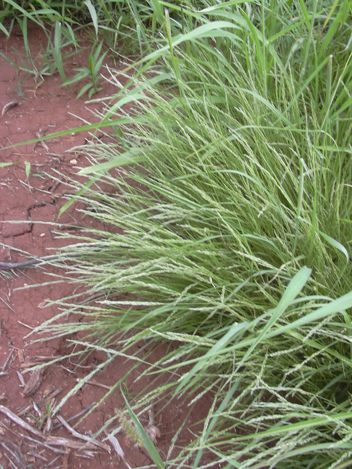 Panicum fauriei var. fauriei (habit). Location: Kahoolawe, Lua Kealialalo